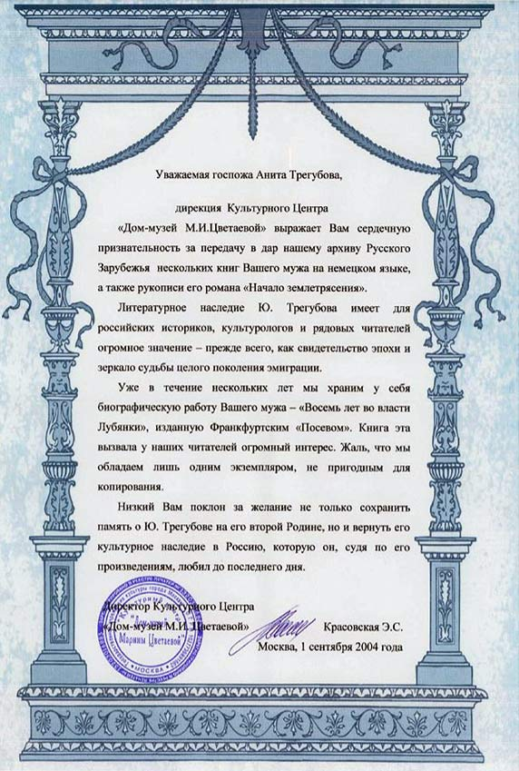 scanned letter of the direktor of the Museum Marina Zwetajewa. Translation into